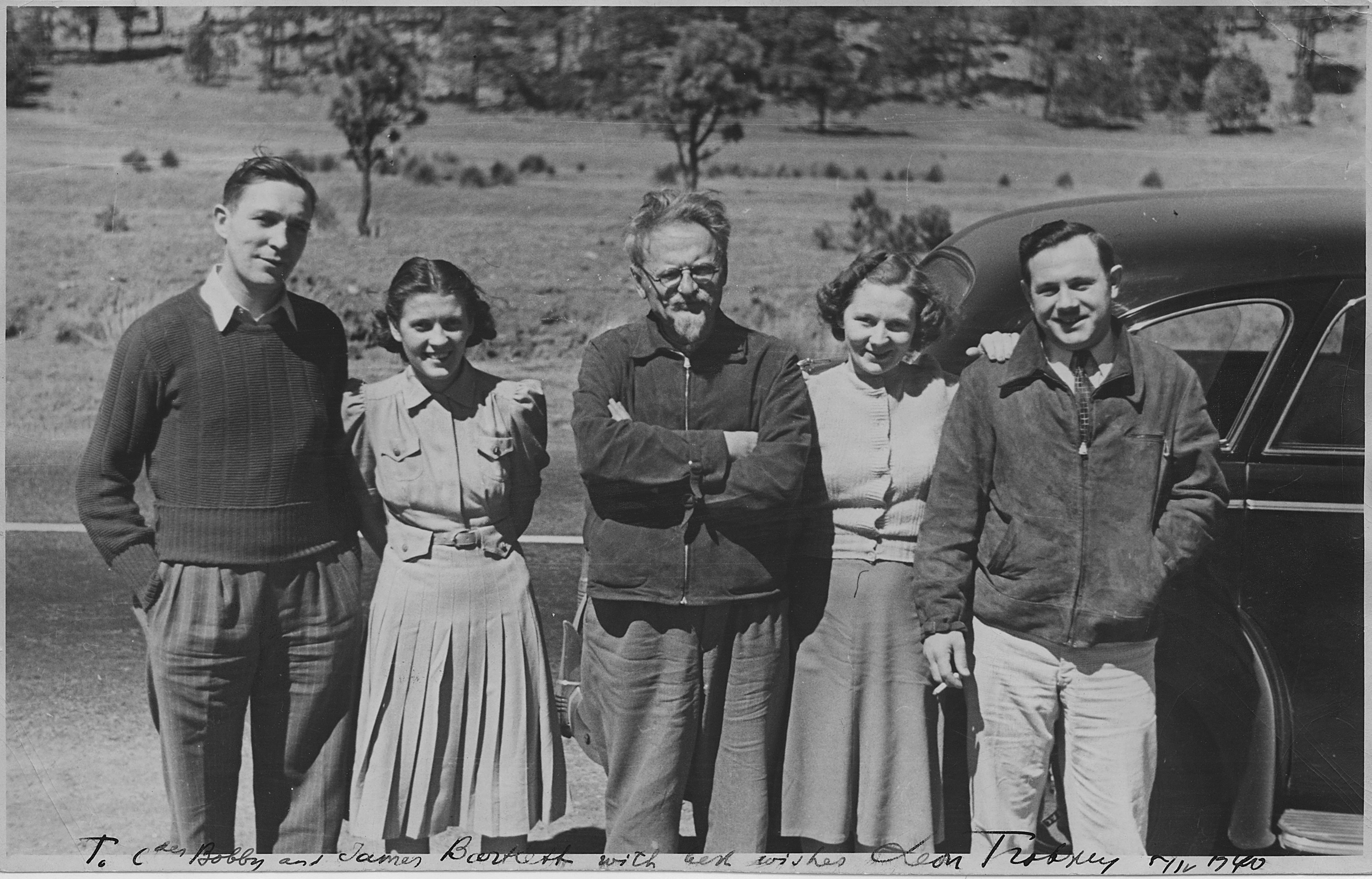 Scope and content: Trotsky posed with American Trotskyites Harry De Boer and James H. Bartlett and their spouses; print autographed by Trotsky, April 5, 1940.